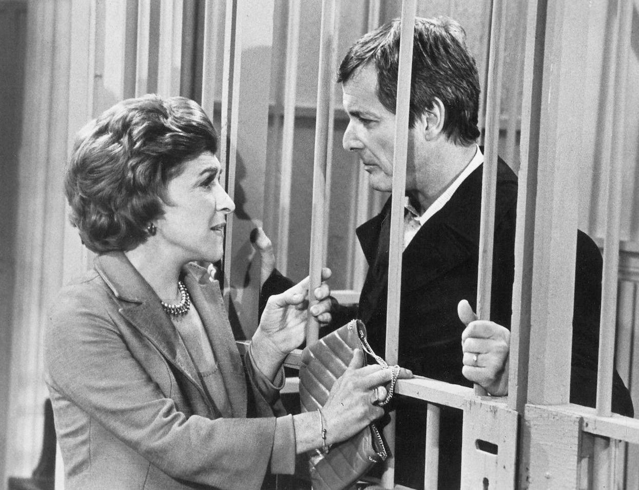 Photo of Nancy Walker and William Daniels as Nancy and Ken Kitteridge from the short-lived Nancy Walker Show. In this episode, Ken is mistakenly arrested and Nancy needs to bail him out of jail.